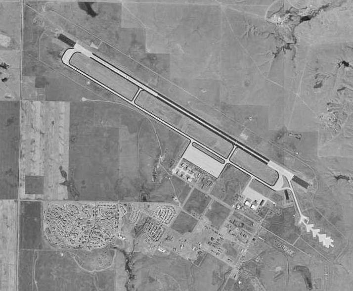 USGS orthophoto of Glasgow Industrial Airport (formerly Glasgow Air Force Base) in Glasgow, Montana, United States.